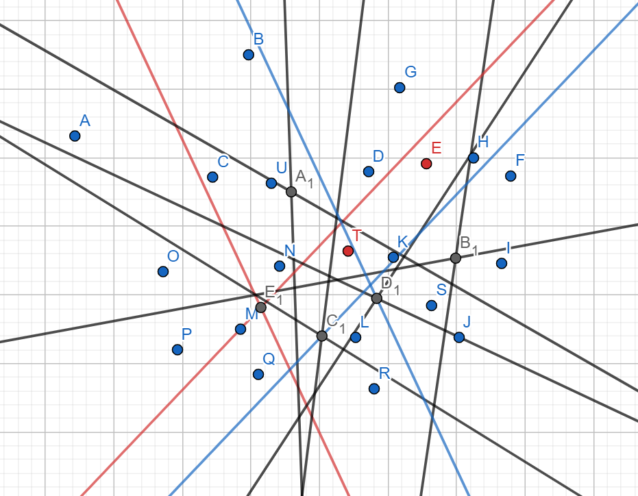 The median direction of the bisectors of pairs (A, B), (C, D), ..., (S, T) oriented to half-pollen determined by the bisector of pair (A, B) (colored red) is direction of bisector of (G, H) (colored red). The bisectors were paired so that the bisector direction of the pair (G, H) was between the bisector directions in the pair. The intersections A1, B1, C1, D1, E1 of the resulting pairs were found. The blue parallel line with a red line passing through the C1 point divided these intersections so that there were 3 in each half. The result of search for the smallest circle with the center on this line containing points A, ..., U determined that the center of the smallest circle without constraint lies in "upper" half-pollen. Therefore, a blue parallel line to other red line was chosen to pass through D1 (dividing the intersections B1, C1, D1 of the lower half-pollen such that each part contatins 2 of them). The result of searching for the smallest circle with the center on this line containing points A, ..., U determined that the center of the smallest circle without constraint is in the "left" half-pollen, so there is in the bisectors determining points B1 ((E, F), (O, P)) and D1 ((T, S), (K, L)) a bisector nonintersecting quadrant in which the center of the circle searched is ((E, F), (T, S)). It guarantees which point from the pair is closer to the circle center, wherever the center is in the appropriate quarter.